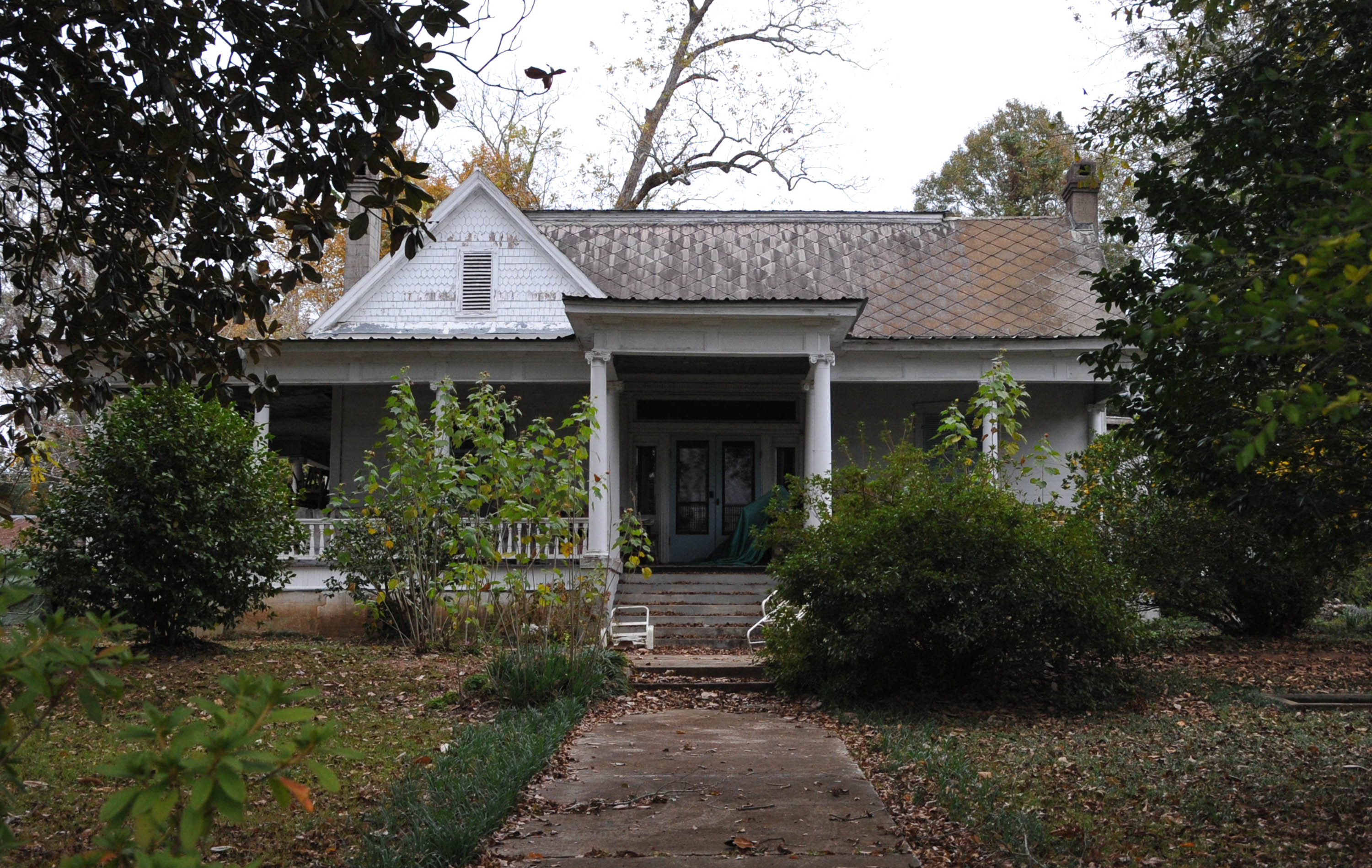 BUILT IN 1880